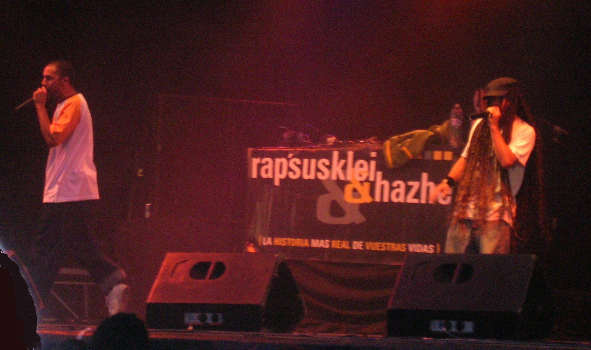 Rapsusklei and Hazhe acting live at the Bilbao Urban Musikaldia, at Vista Alegre bullring.